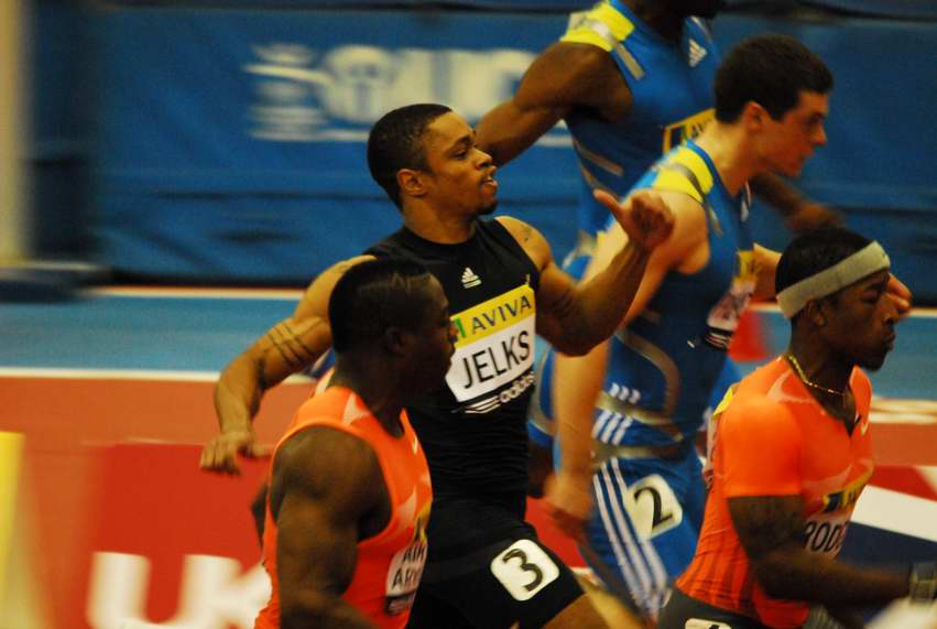 Mark Jelks, Harry Aikines Aryeetey, Michael Rodgers Birmingham indoor meeting 2010